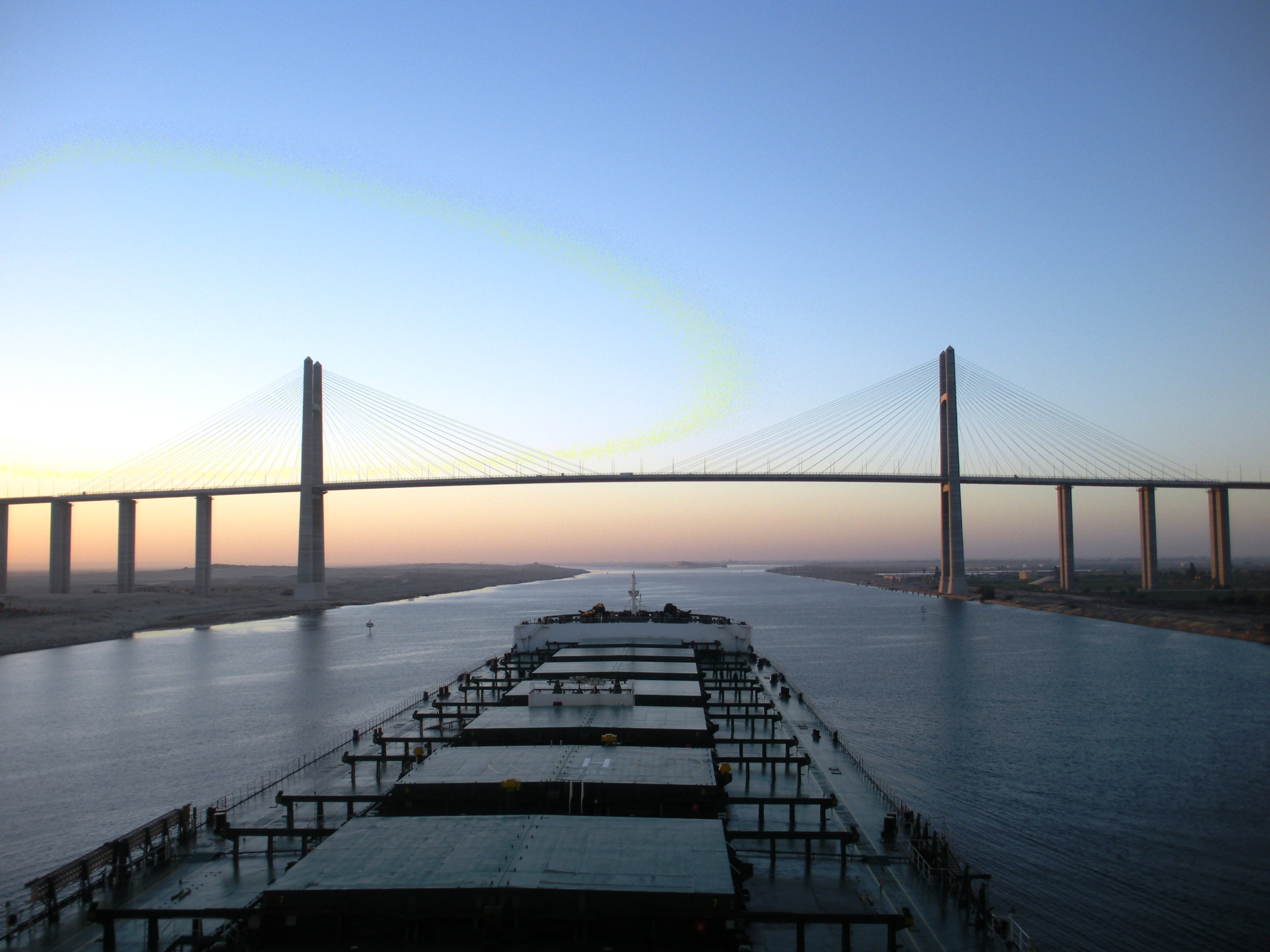 MV Genco Titus, IMO number 9410959, a 9-hold, capesize bulk carrier, approaches the Suez Canal Bridge.